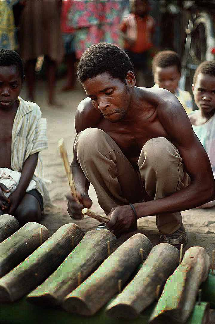 The photographer describes this instrument as a "traditional 'mangolongondo'".